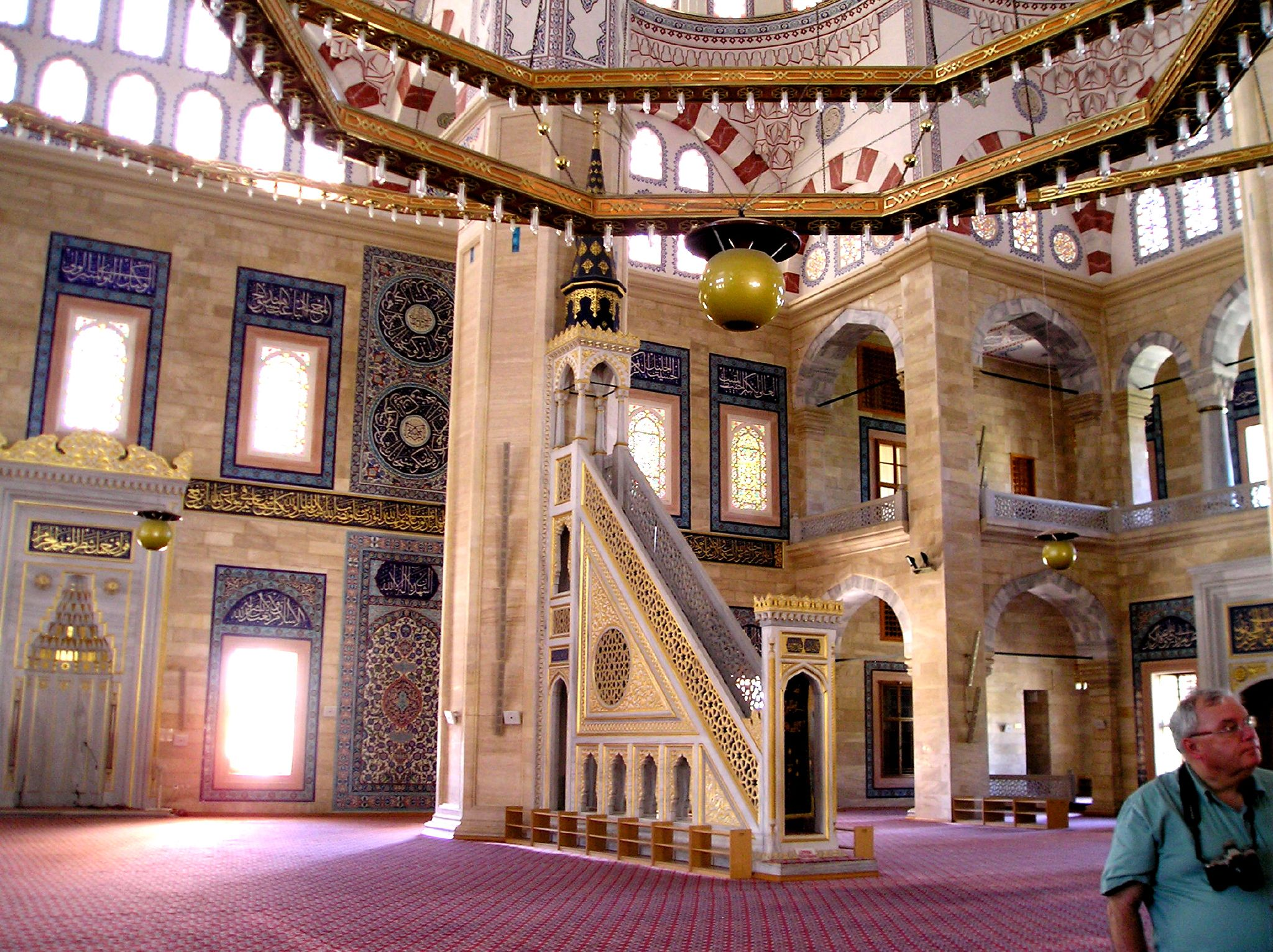 Interior view of Sabancı Central Mosque in Adana, Turkey.